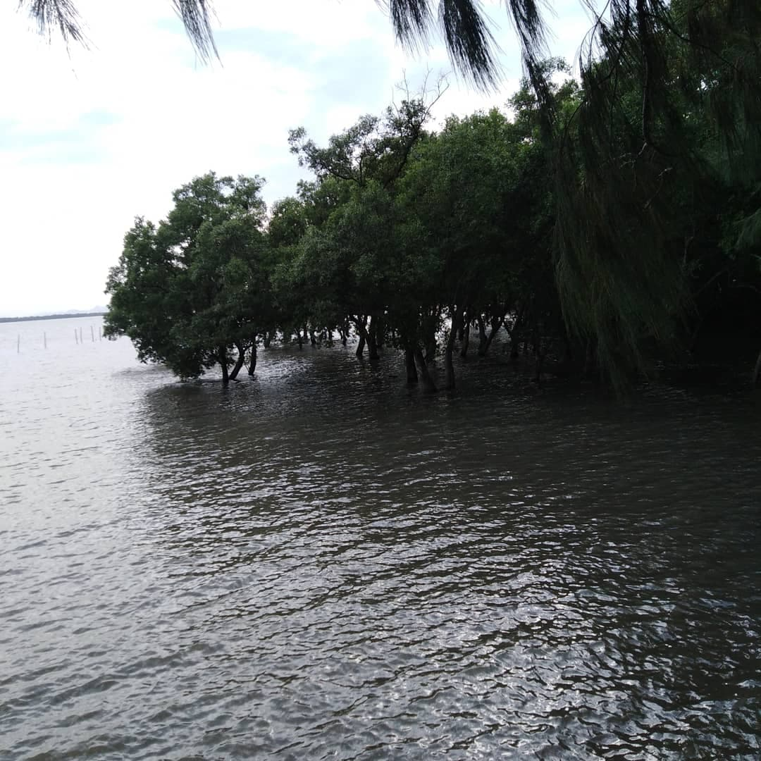 Mangrove Trees in Don Hoi Lot, Samut Songkhram Thailand.